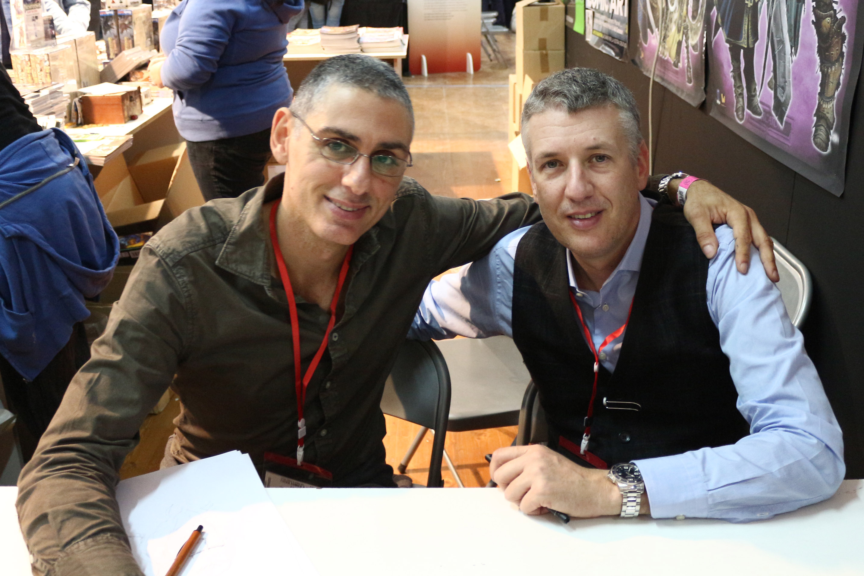 Giuseppe Matteoni and Stefano Vietti at Lucca Comics 2013